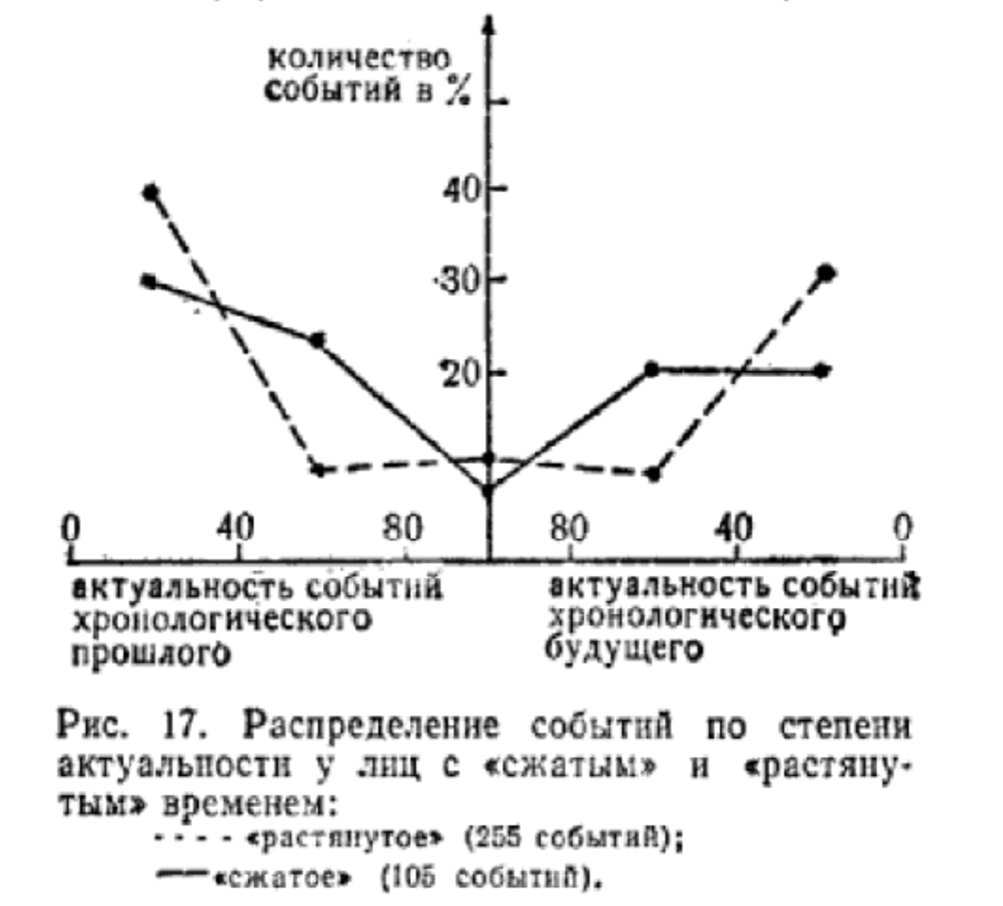 Time distortion